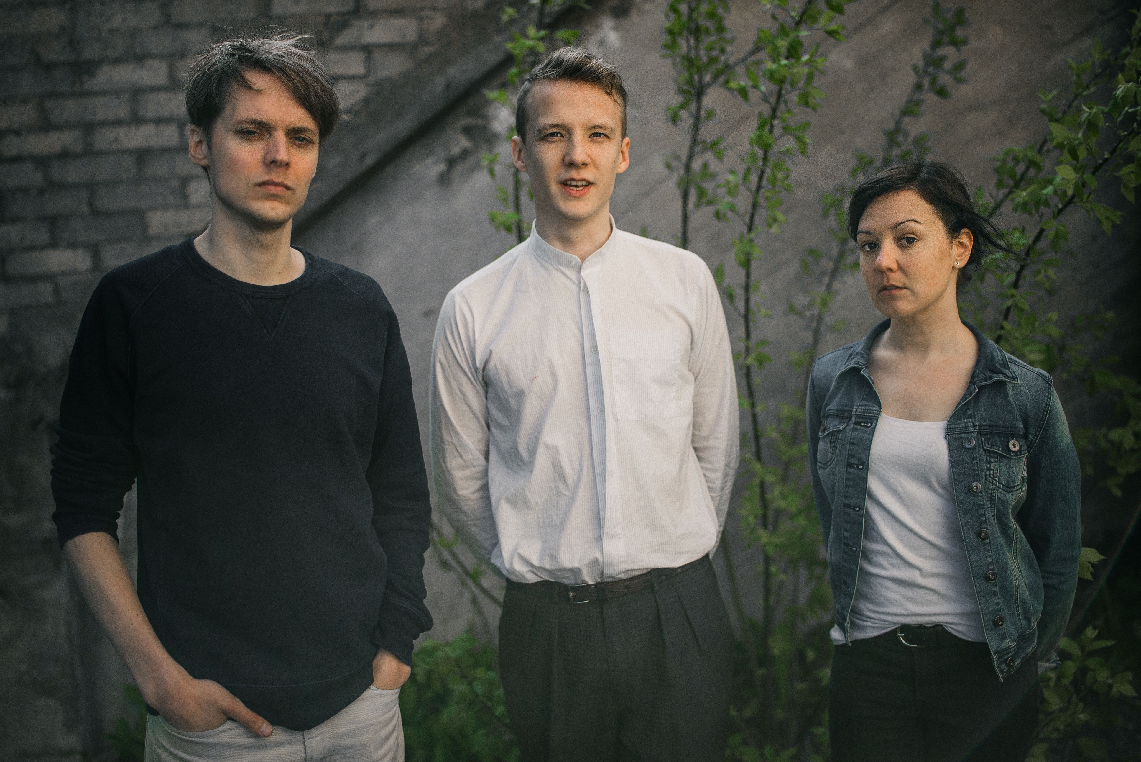 Indiepop band Vasas flora och fauna in 2015.